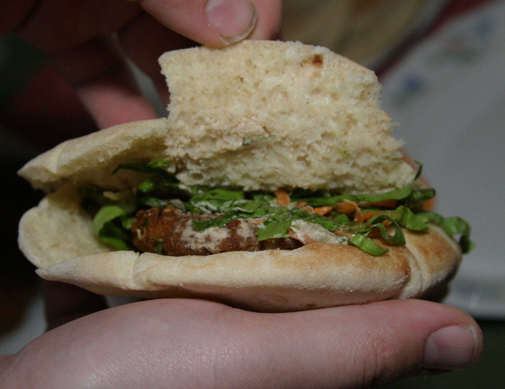 Tameya sandwich - Egyptian delikatessen